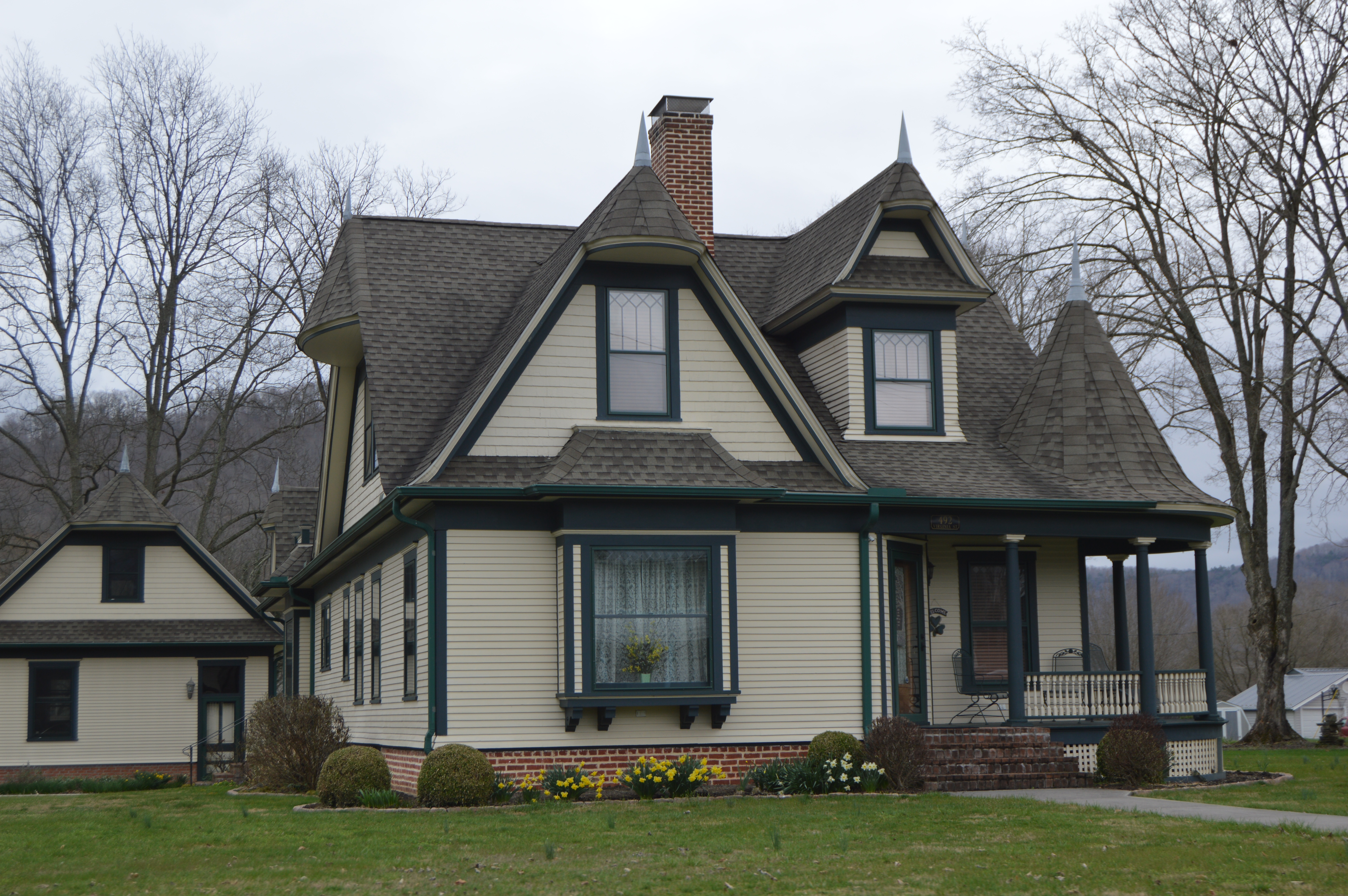 Front of the Argabrite House, located at 504 Virginia Street in Alderson, West Virginia, United States. Built in 1908, it is listed on the National Register of Historic Places.